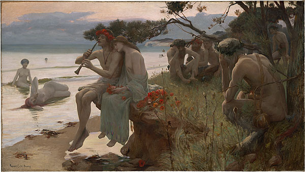 Pastorale